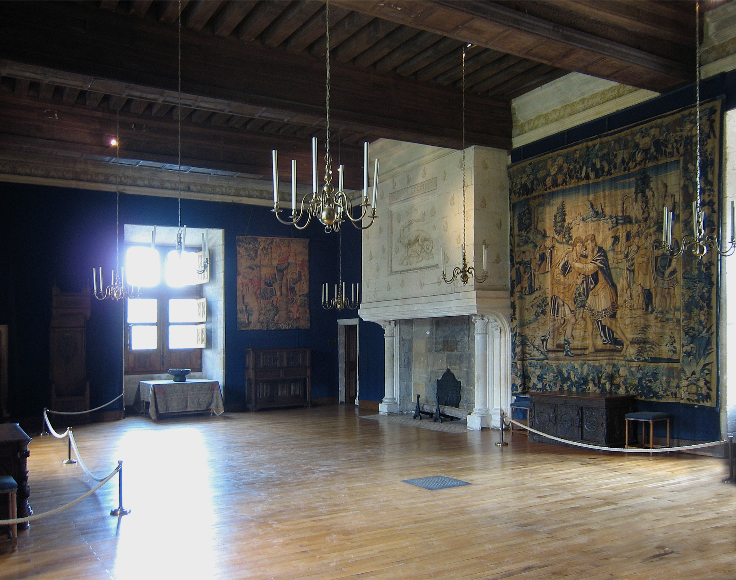 Grand hall in the Château d'Azay-le-Rideau in the village of Azay le Rideau on the river Indre, Region Centre, Département Indre-et-Loire/France.